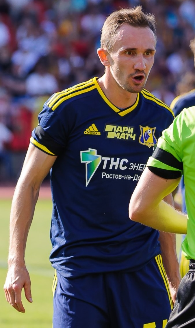 Aleksei Kozlov with FC Rostov in a game against FC Arsenal Tula.